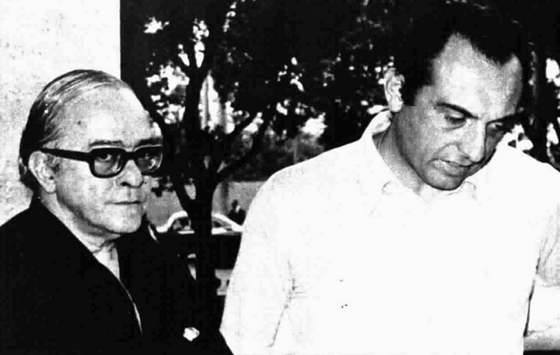 Brazilian singer and poet Vinícius de Moraes and Italian critic and writer Leone Piccioni in Rome